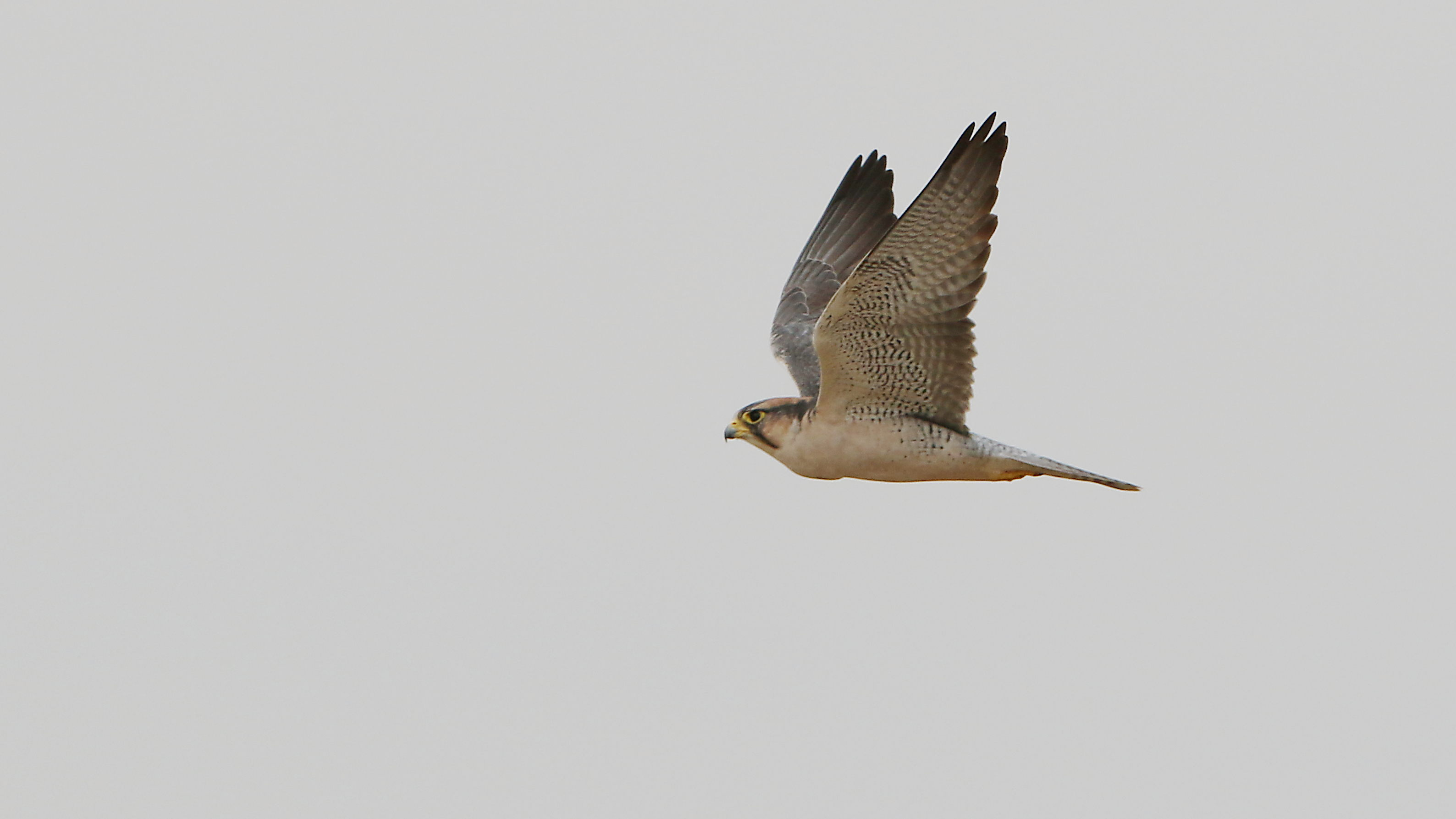 Lanner Falcon Falco biarmicus, Kgalagadi Transfrontier Park, Northern Cape, South Africa.